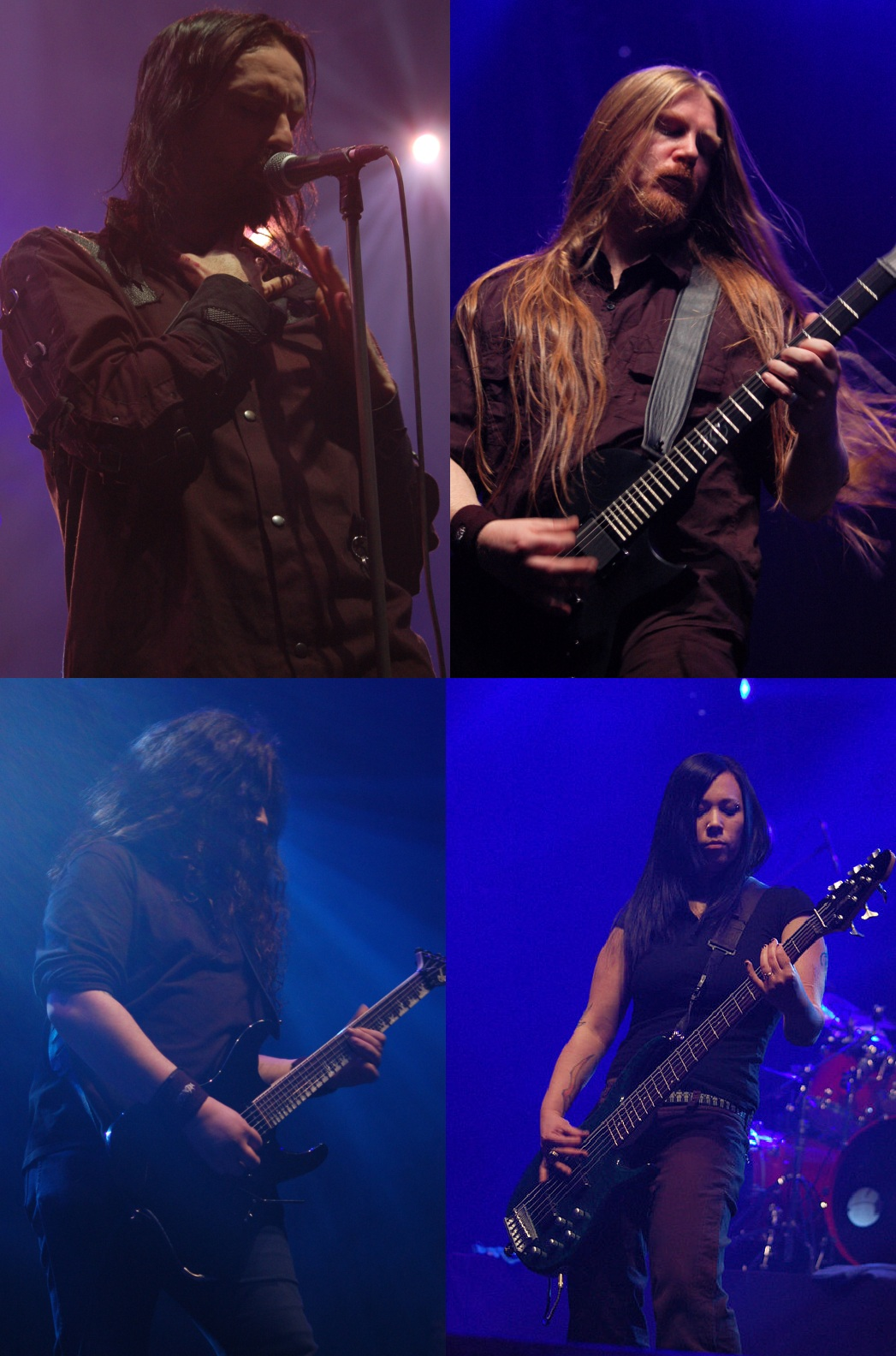 Four members of My Dying Bride clockwise from top-left: Aaron Stainthorpe, Andrew Craighan, Lena Abé and Hamish Glencross.